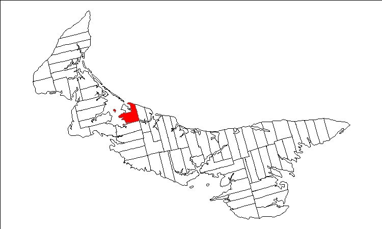 Public domain map of Prince Edward Island created by User:Plasma east with data courtesy of Geogratis, modified to show townships. Released under GFDL (self).